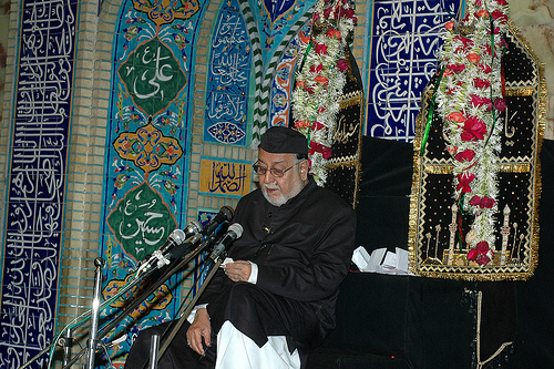 Maulana Mirza Mohd Athar (مولانا محمد ميرزااطهر) is a zakir-e-ahl-e-bayt from Lucknow, India. This picture was taken on 8th Moharam at Moghul Masjid.